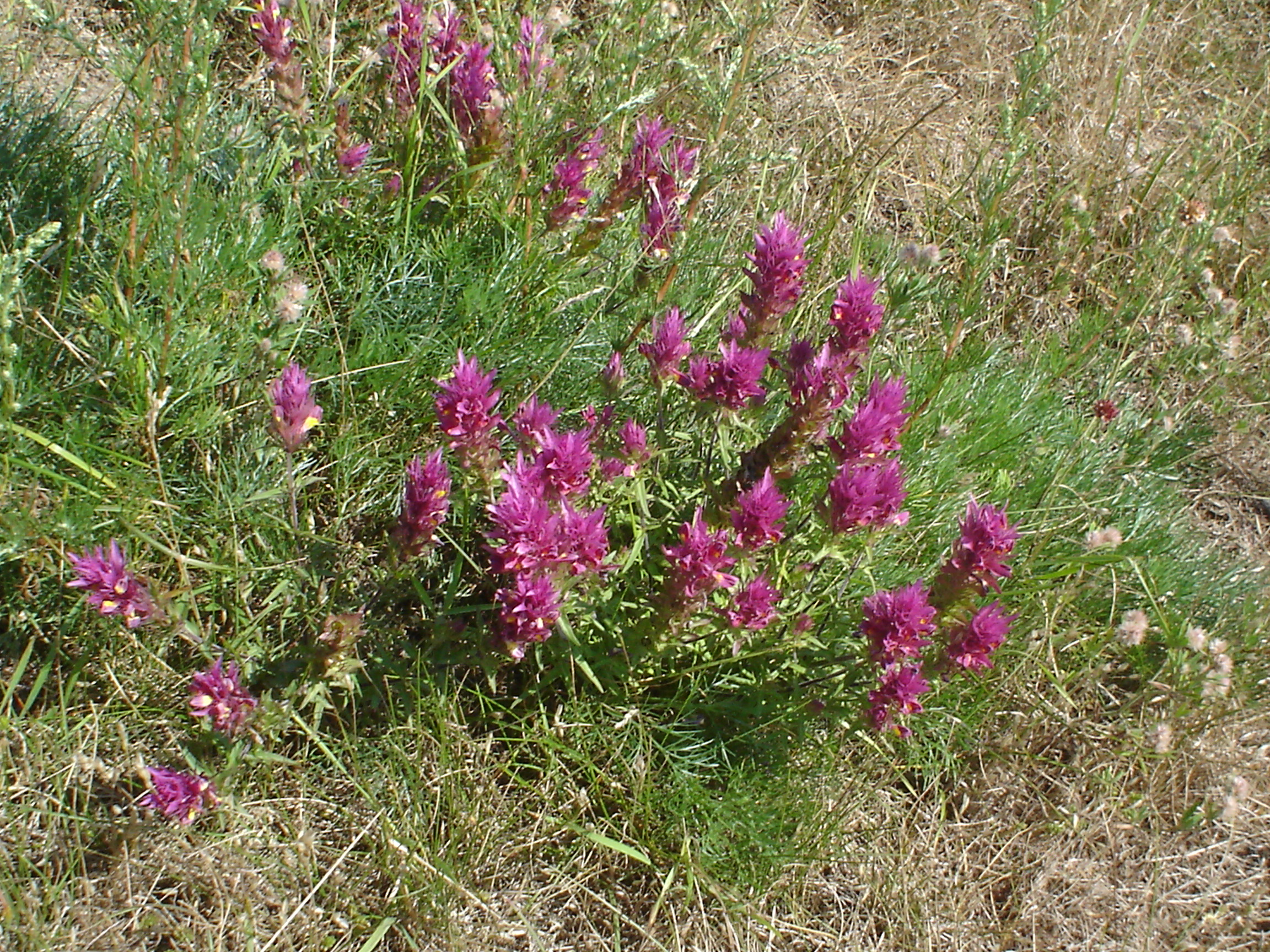 Flowers of field cow-wheat (Melampyrum arvense).